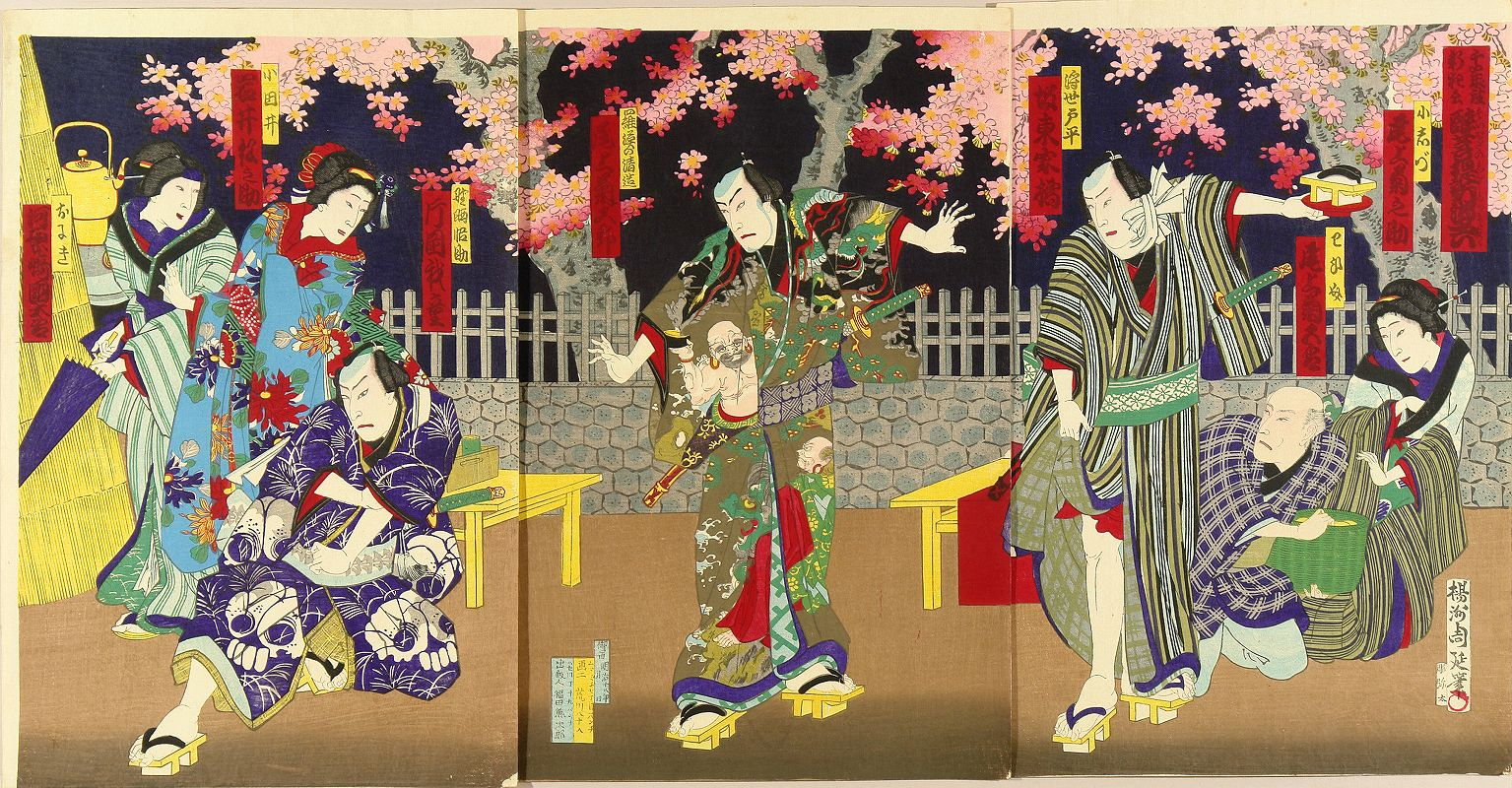 A scene of the kabuki stage